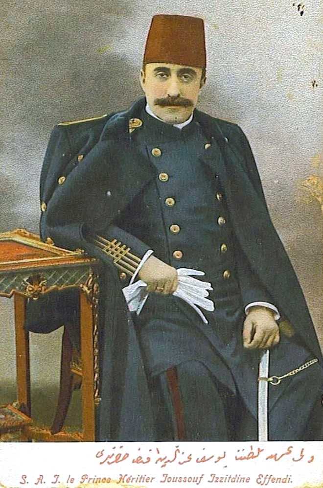 Prince Sehzade Yusuf Izzeddin Effendi (10 October 1857 - 1 February 1916, Ottoman Turkish: یوسف عزالدین افندی) was the son of Sultan Abdul Aziz and the Crown Prince of the Ottoman Empire from 1909 until his death. His mother was a Georgian, Dürrünev Kadın Efendi...